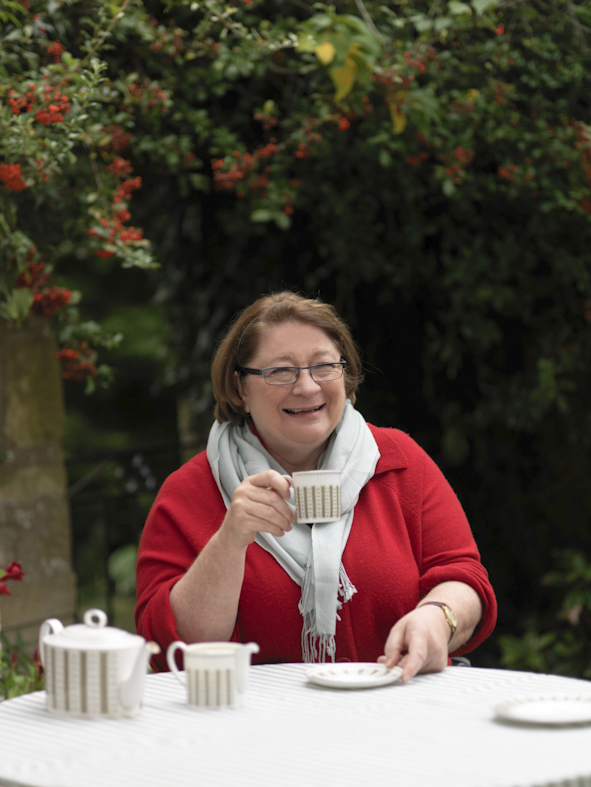 Rosemary is a chef, food enthusiast and TV personality. She was Head Chef at Amhuinnsuidhe Castle from 1998 till 2002 and ran cookery courses for students.